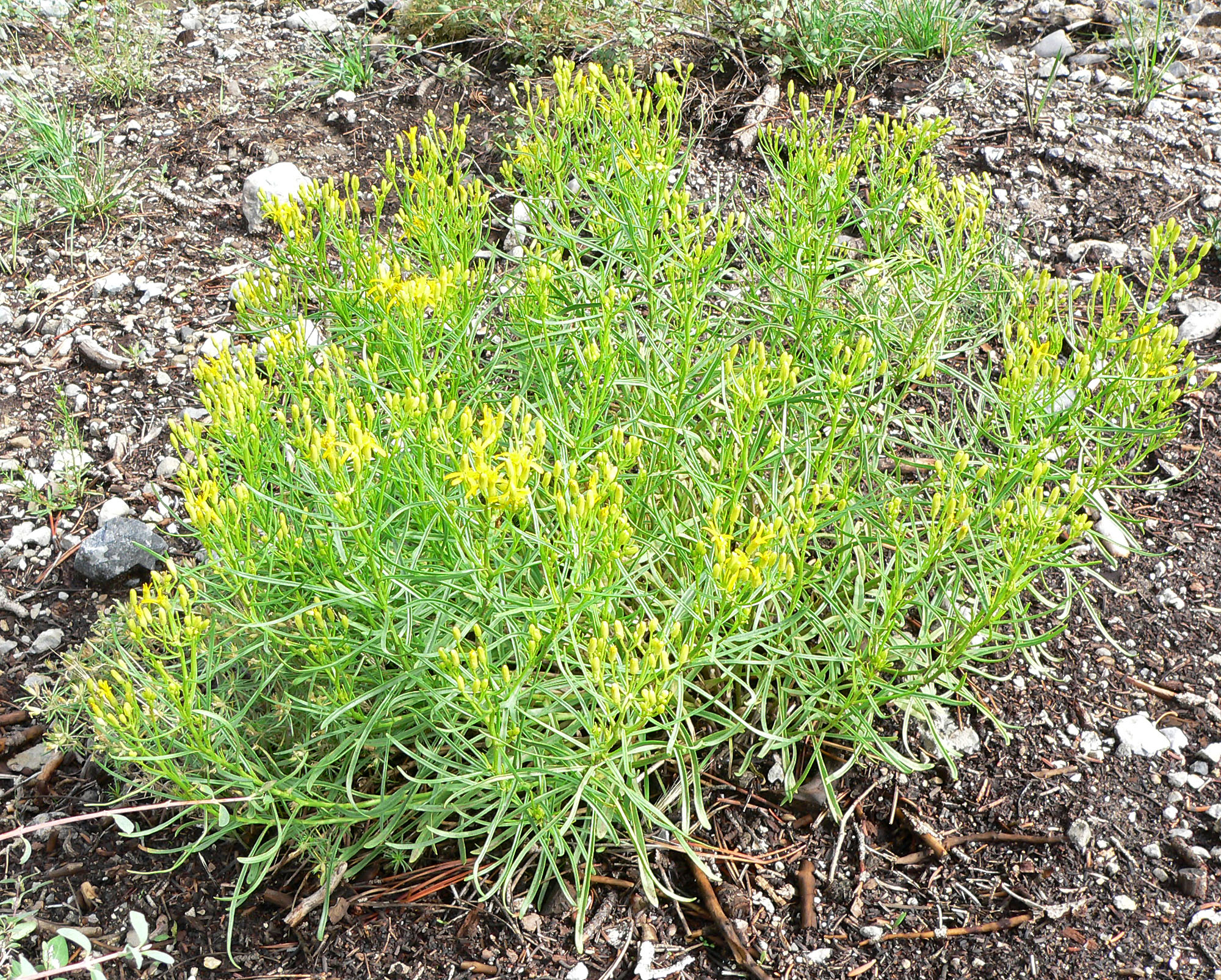 Senecio spartioides in Lee Canyon, Spring Mountains, southern Nevada